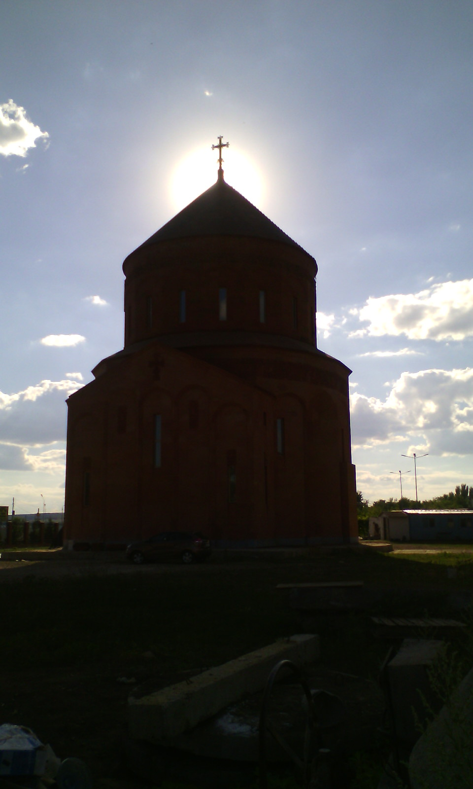 Built in 2007-2018 next to the airport, Saratov, Russia